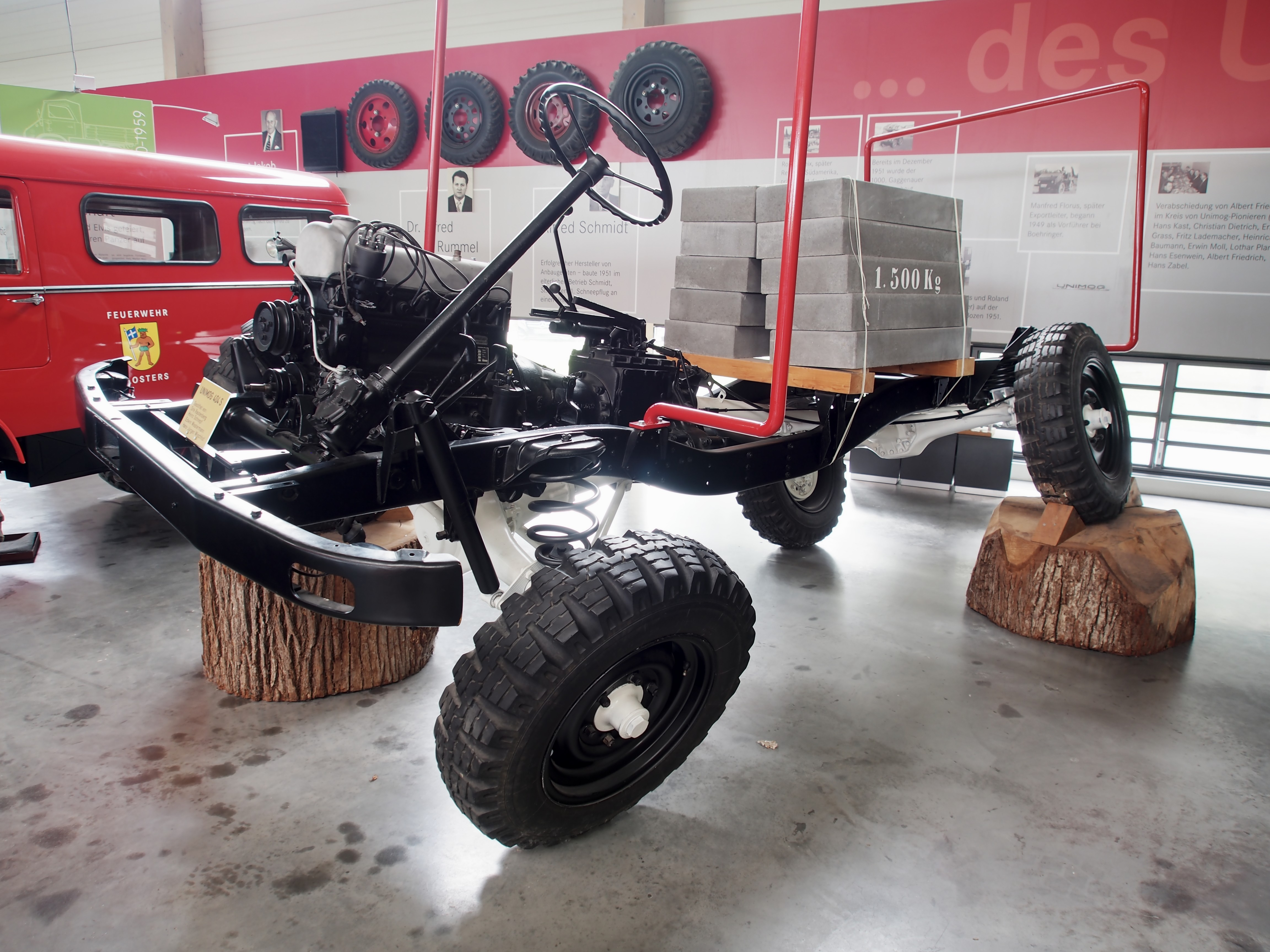 Photos taken at the Unimog Museum, Gaggenau, Deutchland.